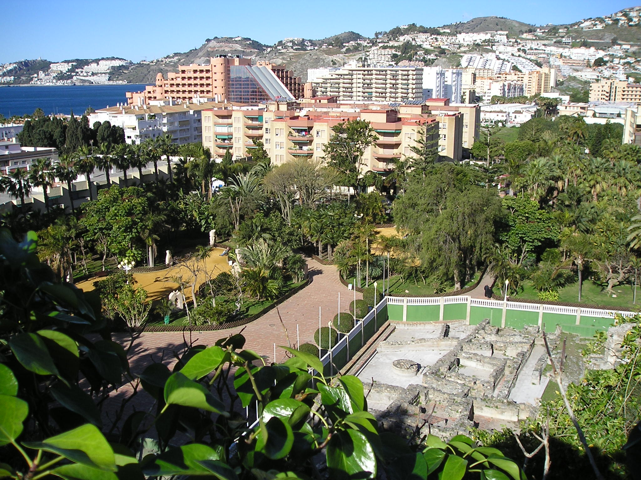 Photograph taken by me Noel Walley.